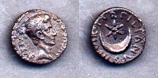 Augustus. 27 BC-AD 14. AR Denarius (3.92 g, 3h). Rome mint. P. Petronius Turpilianus, moneyer. Struck 19/8 BC. CAESAR AVGVSTVS, bare head right TVRPILIANVS • III • VIR •, six-pointed star above large crescent. RIC I 300; RSC 495; BMCRE 32-4; BN 161-6.